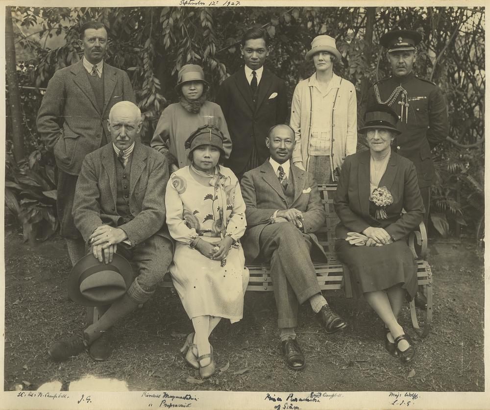 Official visit of members of the Royal Family of Thailand, Brisbane, 1927 Back row, standing, left to right: Lt. Col. Neil Campbell; Princess Mayura-Statra, daughter of H.R.H. Prince Purachatra; private secretary to H.R.H. Prince Purachatra; Enid Campbell; Major Cecil Wolff. Seated left to right: Governor Sir John Goodwin; H.R.H. Princess Purachatra ; Prince Purachatra of Siam [Kambaeng Bejra,Thailand] and Lady Goodwin. Sir John Goodwin was appointed governor of Queensland from 19 February 1927 until 7 April 1932, when he returned to England.